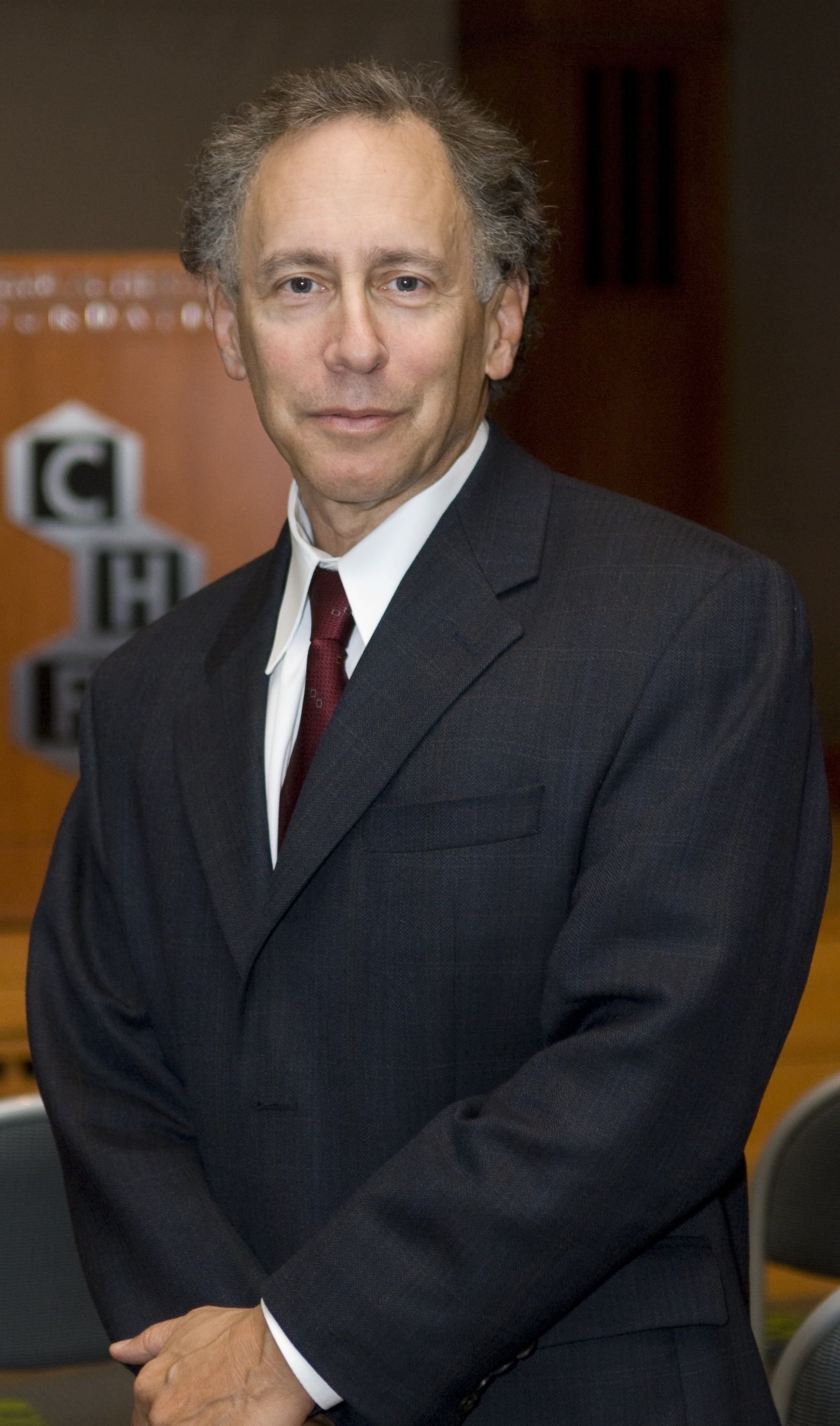 Photograph of chemist Robert Langer, taken at the Molecules in Motion Lecture, 2008-09-25, at the Chemical Heritage Foundation. Chemical Heritage Foundation, Philadelphia, PA, USA.